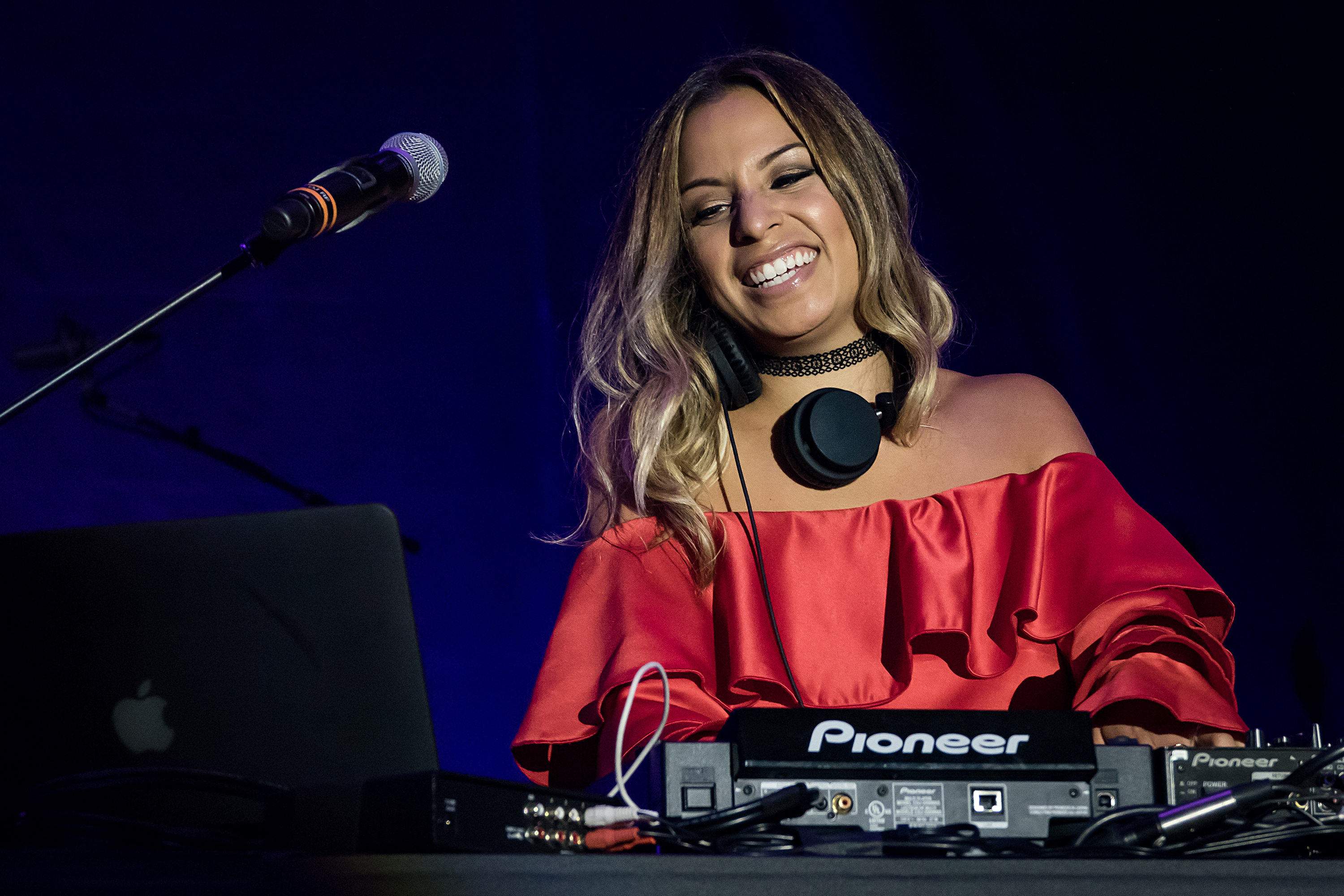 DJ Jasmine Solano spinning for AirBnB Open Spotlight concert in Los Angeles. Concert headliner was Maroon 5.